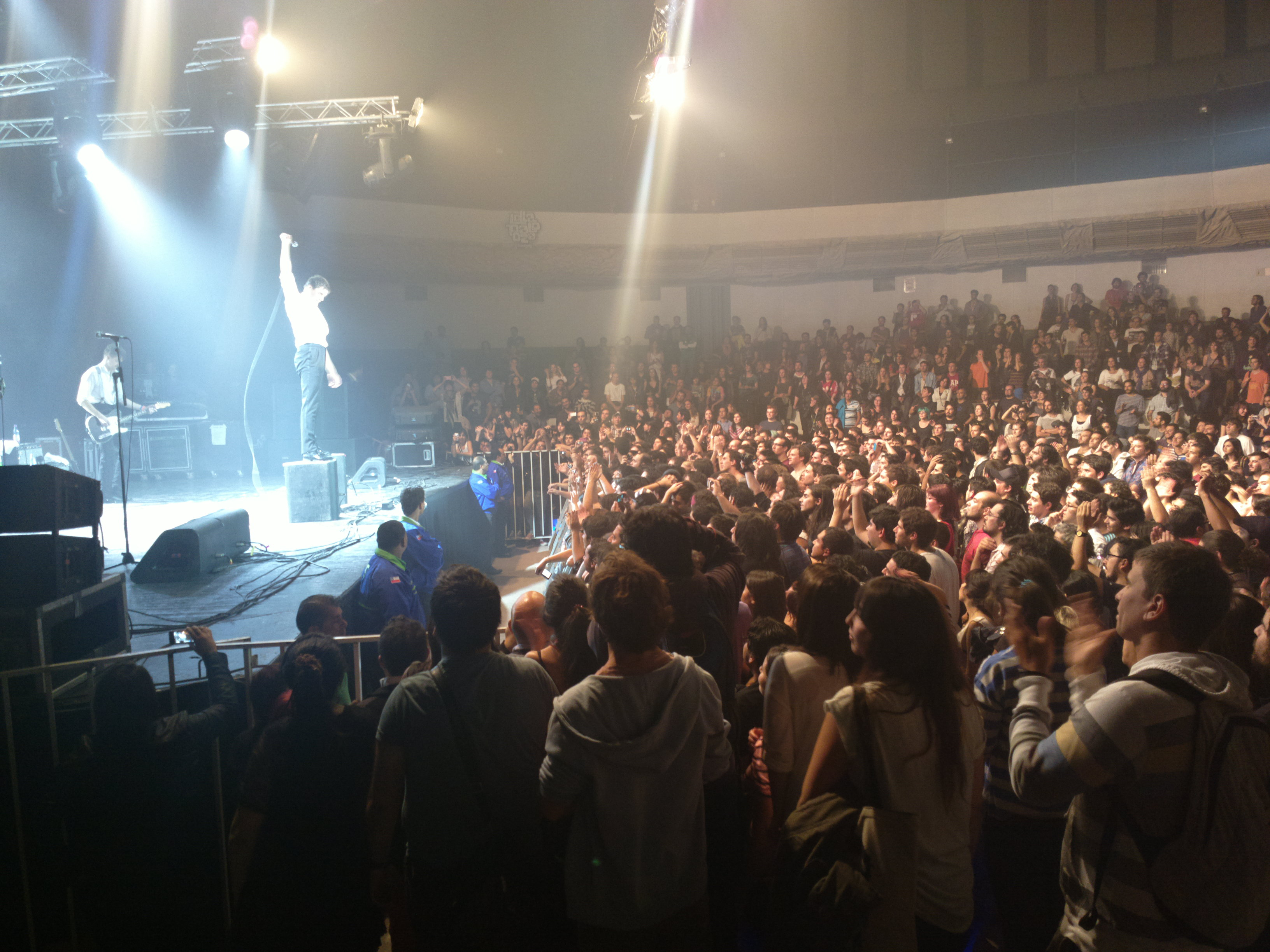 Swedish rock band The Hives performing at La Cúpula theatre, in Santiago, Chile, on April 5th, 2013.